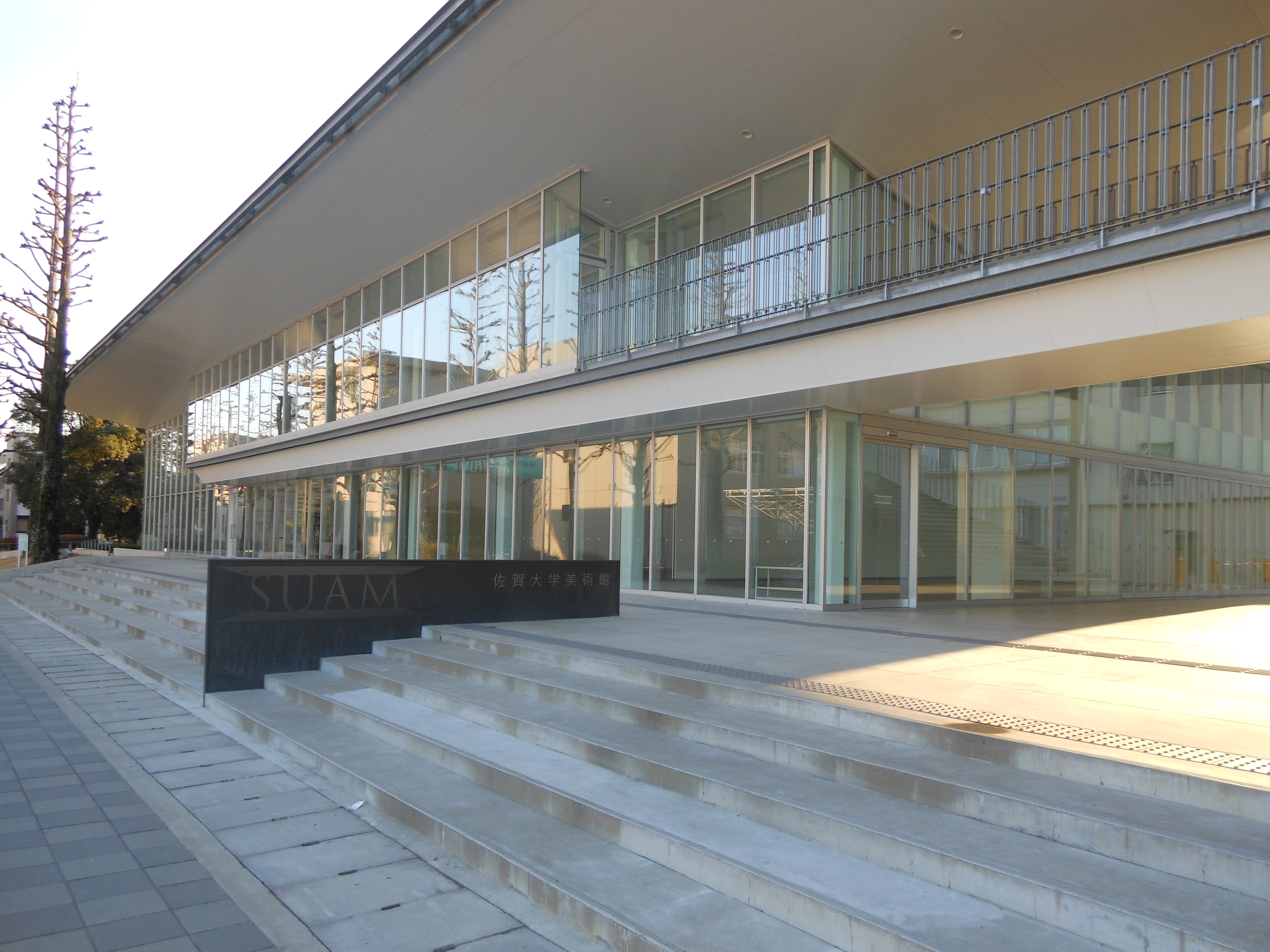 Saga University Art Museum